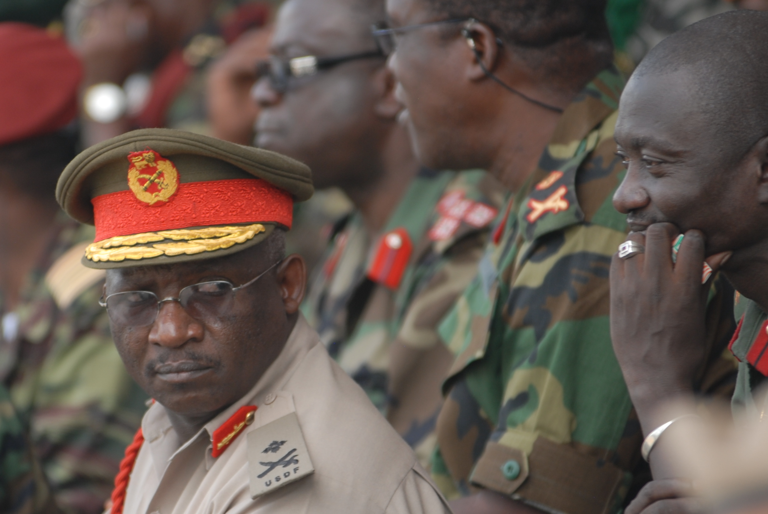 US Army photos by Edward N. Johnson Cleared for public release.